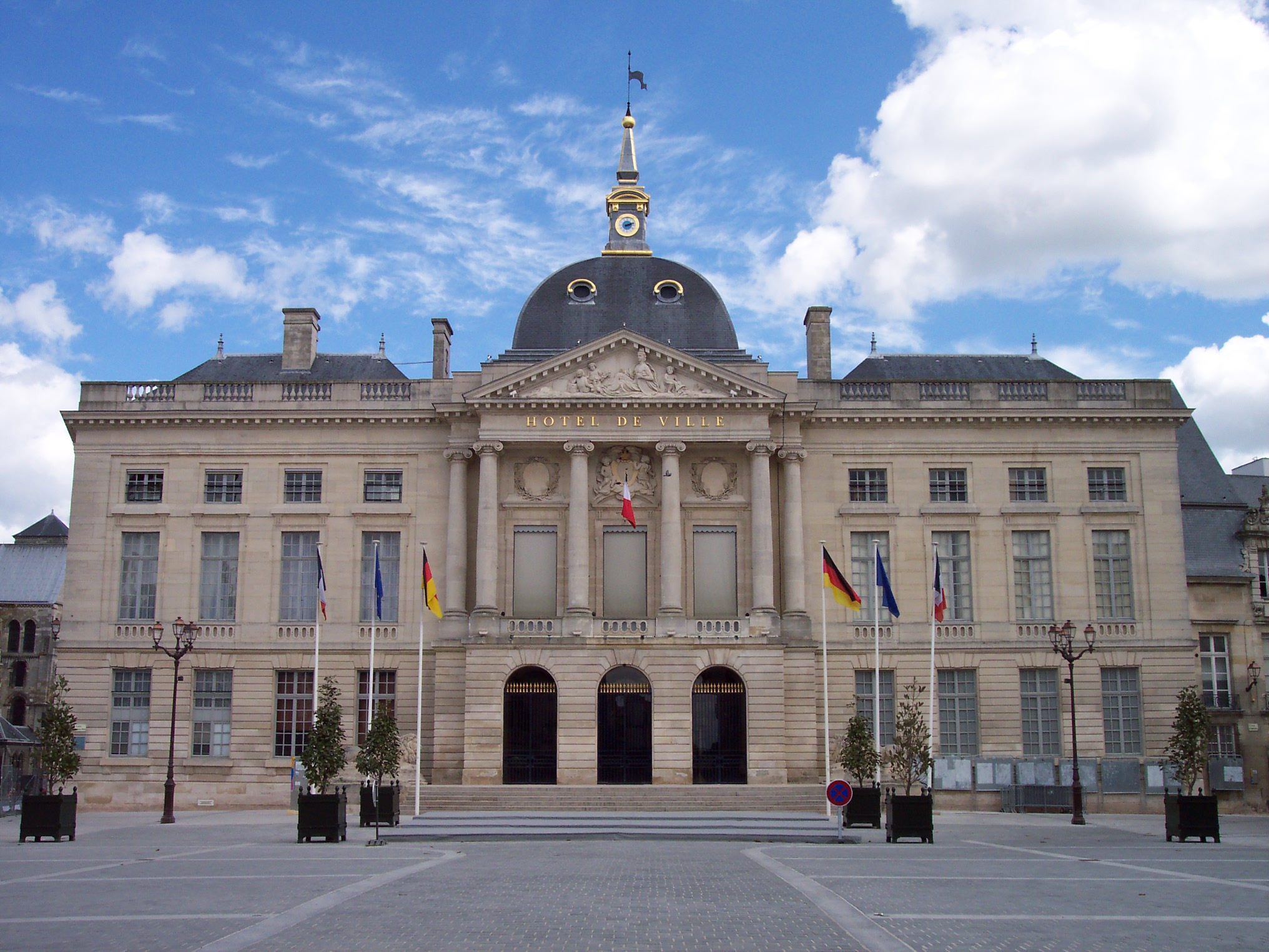 Town Hall of Châlons-en-Champagne (Marne region, France)